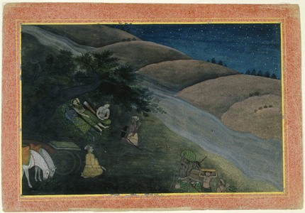 This painting comes from a celebrated series illustrating one of Hinduism’s great epics, the Ramayana. It tells the story of the prince Rama, who is wrongly exiled from his father’s kingdom, accompanied only by his wife and brother. The episode depicted here is the group’s first night outside of the kingdom. The three royals, used to palatial surroundings, sleep on the ground in outfits made of leaves. Rama’s brother (with white skin) talks with the leader of a forest-dwelling tribe, whose men bring provisions for the exiles. The mood is somber but not without hope: the landscape is verdant, the stars are sparkling, and clearly the exiles will find allies among their new neighbors. The painting was created in brighter shades, as was typical for Indian painting, and then the artist applied a thin wash of bluish-gray over the entire surface, like a veil or curtain, to create the effect of the gloom of night.